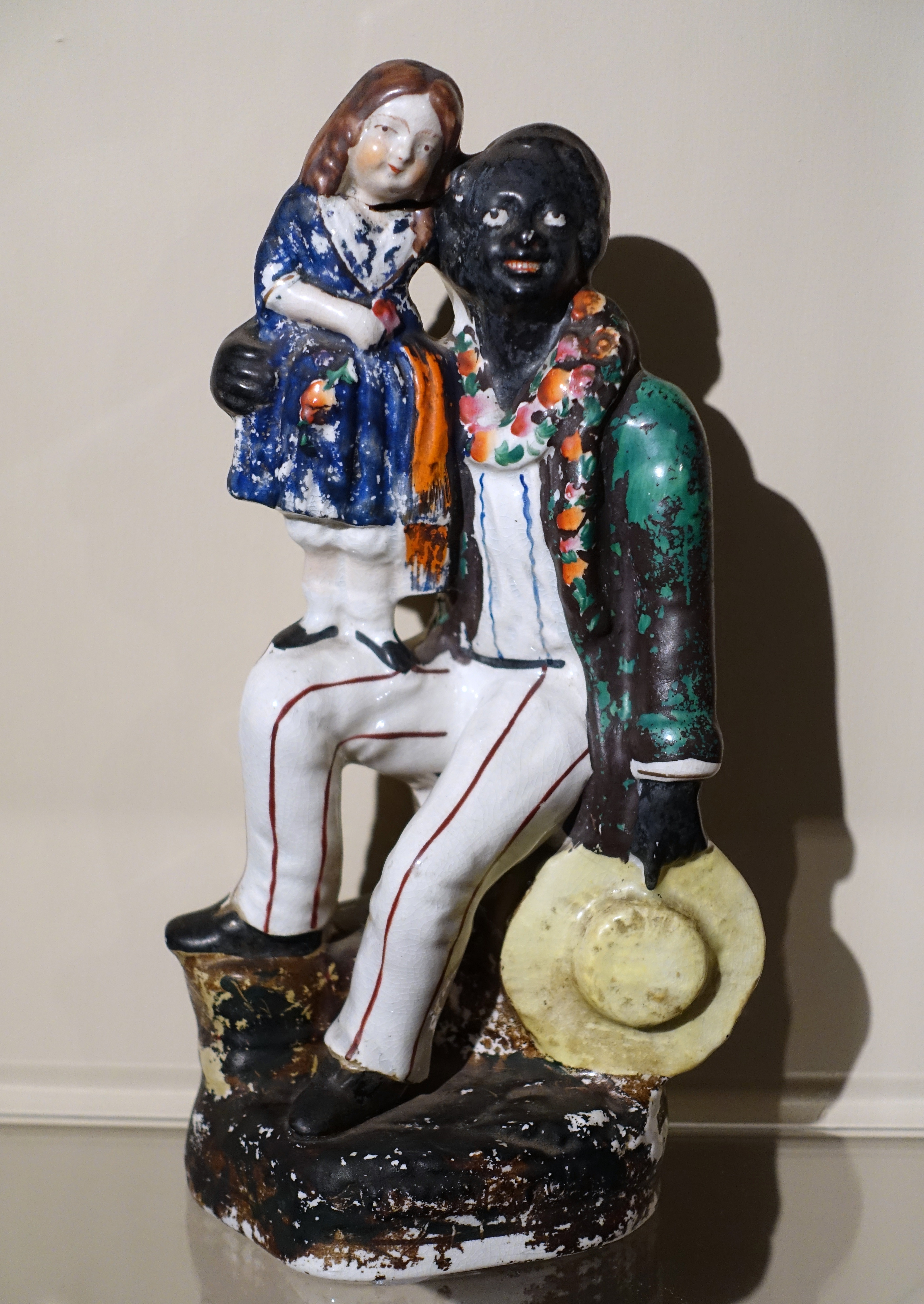 Exhibit in the Concord Museum, Concord, Massachusetts, USA.